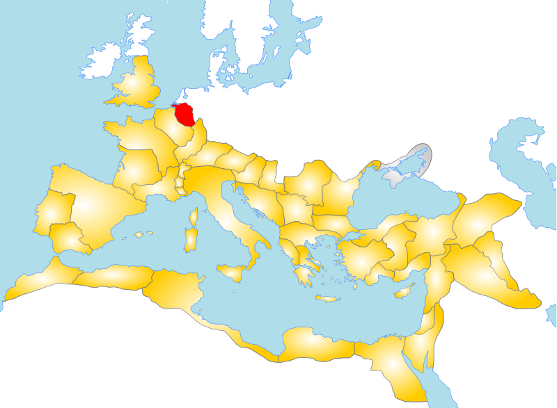 Provincies of Roman empire